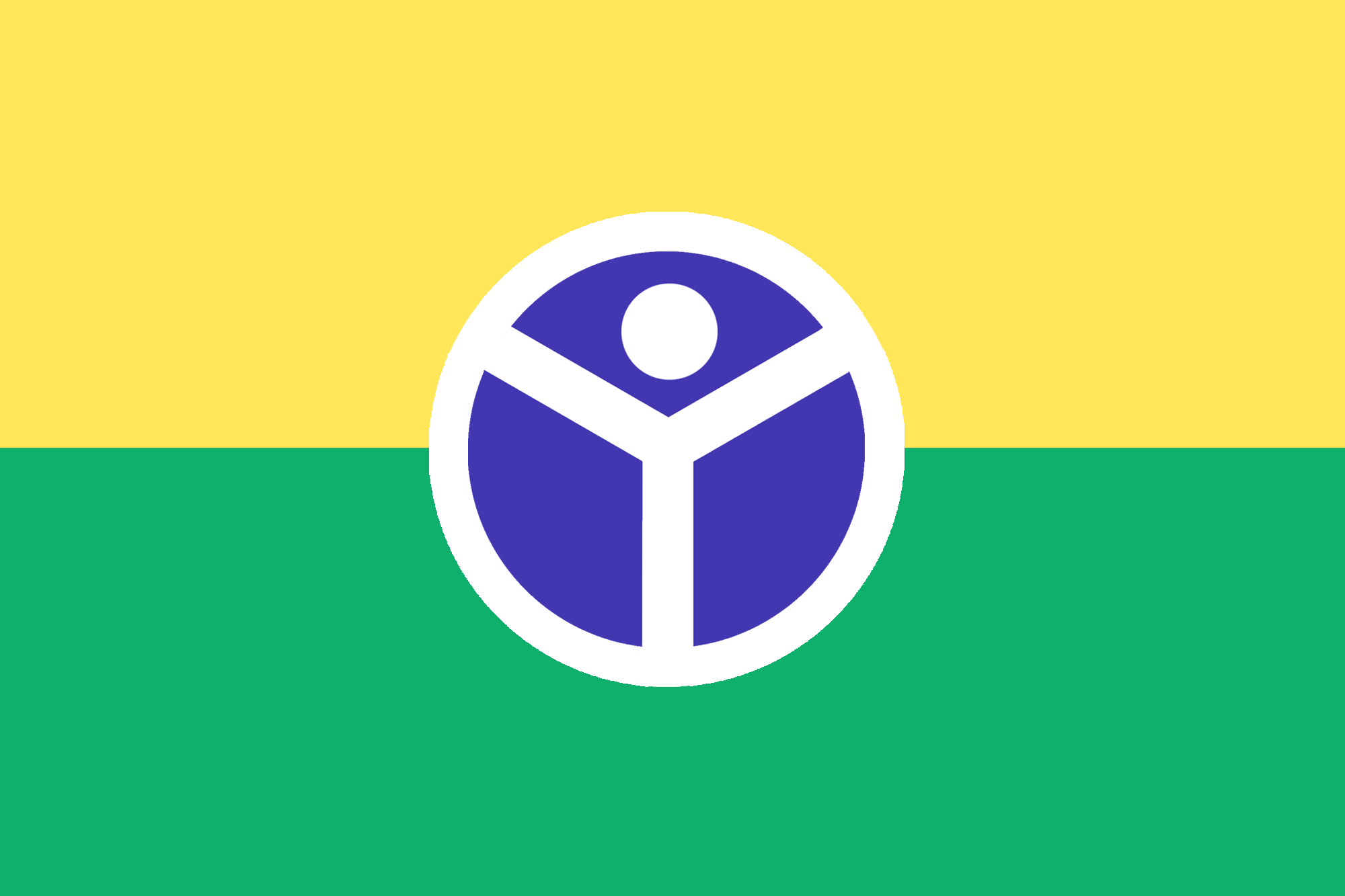 Flag of National Renewal Alliance